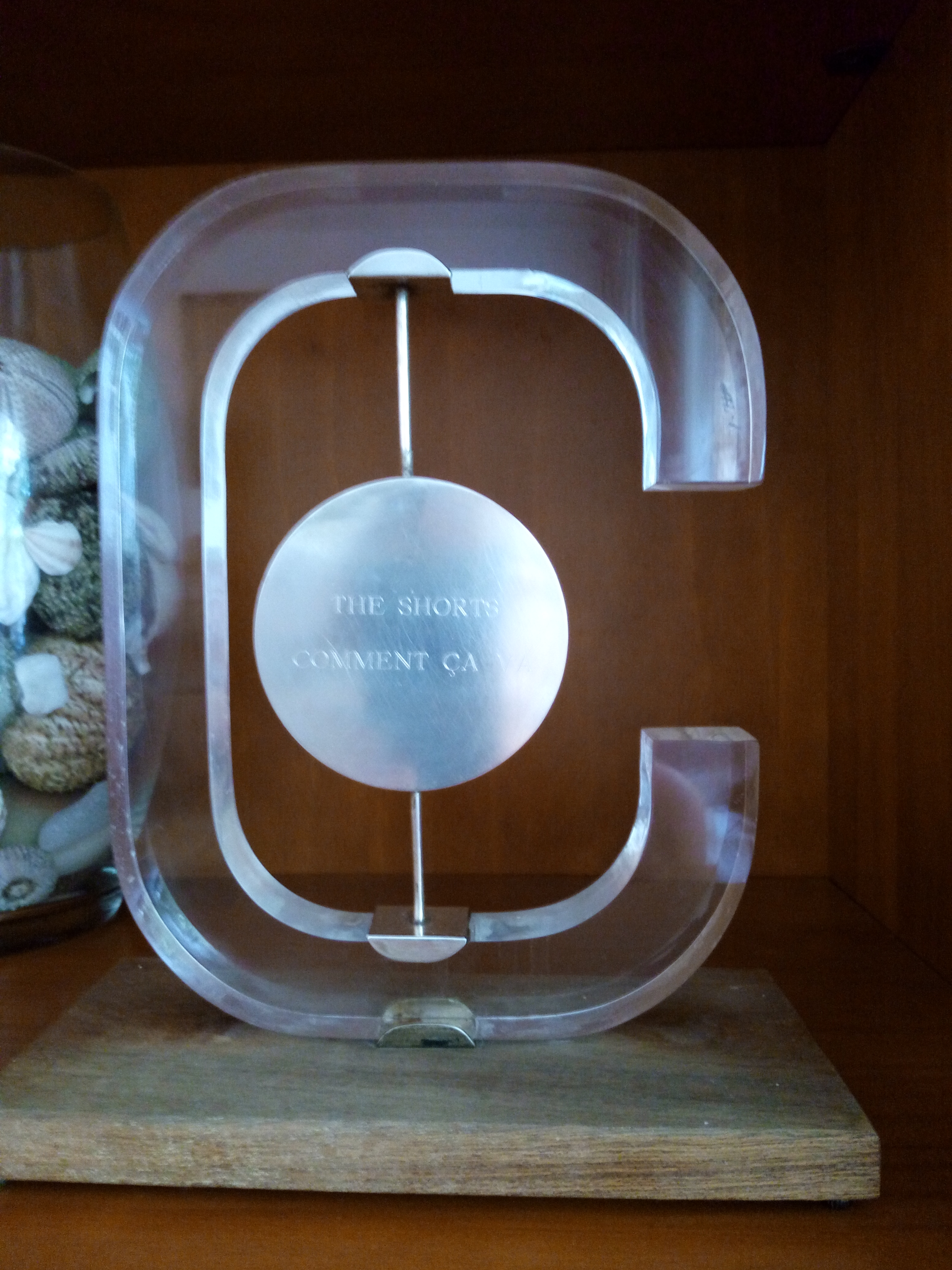 Conamus Exportprijs 1983 (for The Shorts, Jack Jersey and Eddy de Heer)